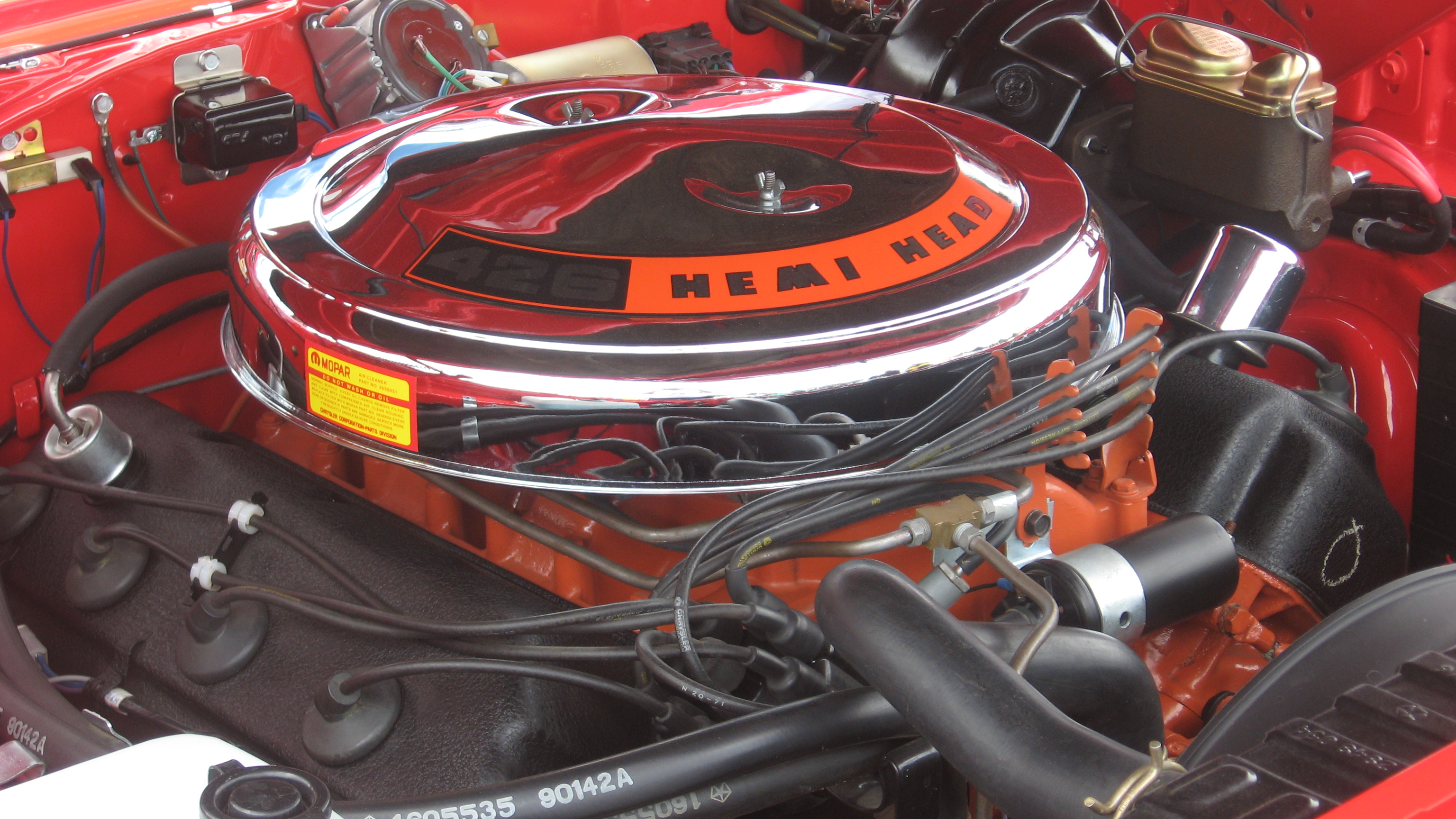 426, shot at local car show/swap meet